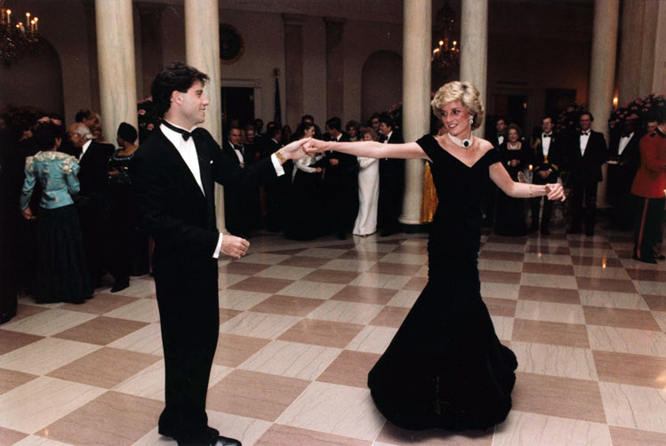 Princess Diana dancing with John Travolta in the entrance hall at the White House.